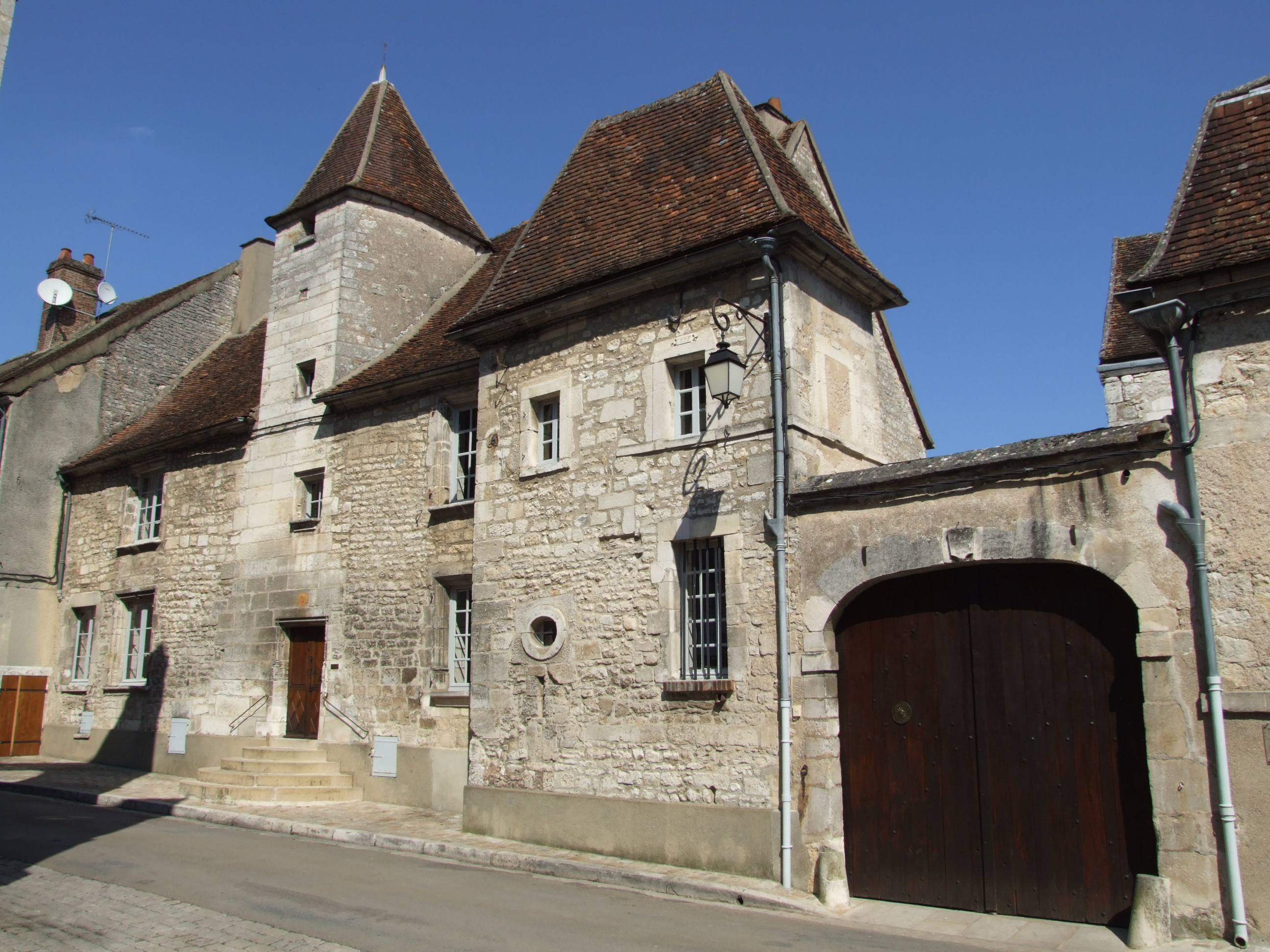 Chablis, Burgundy, FRANCE